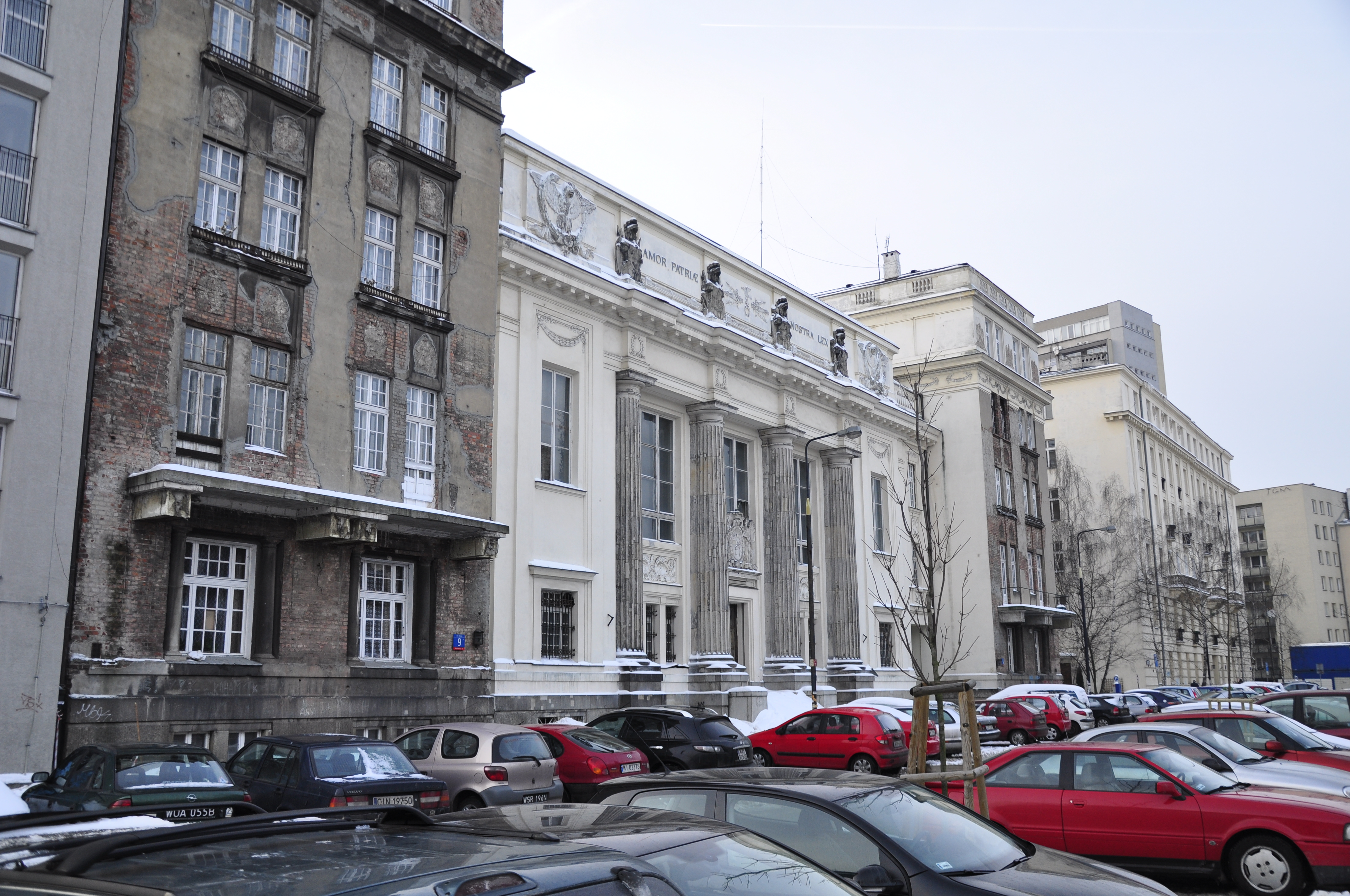 Former building of the Krasiński Library at the Okólnik Street in Warsaw.